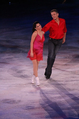 Stars on Ice in Halifax 2010.